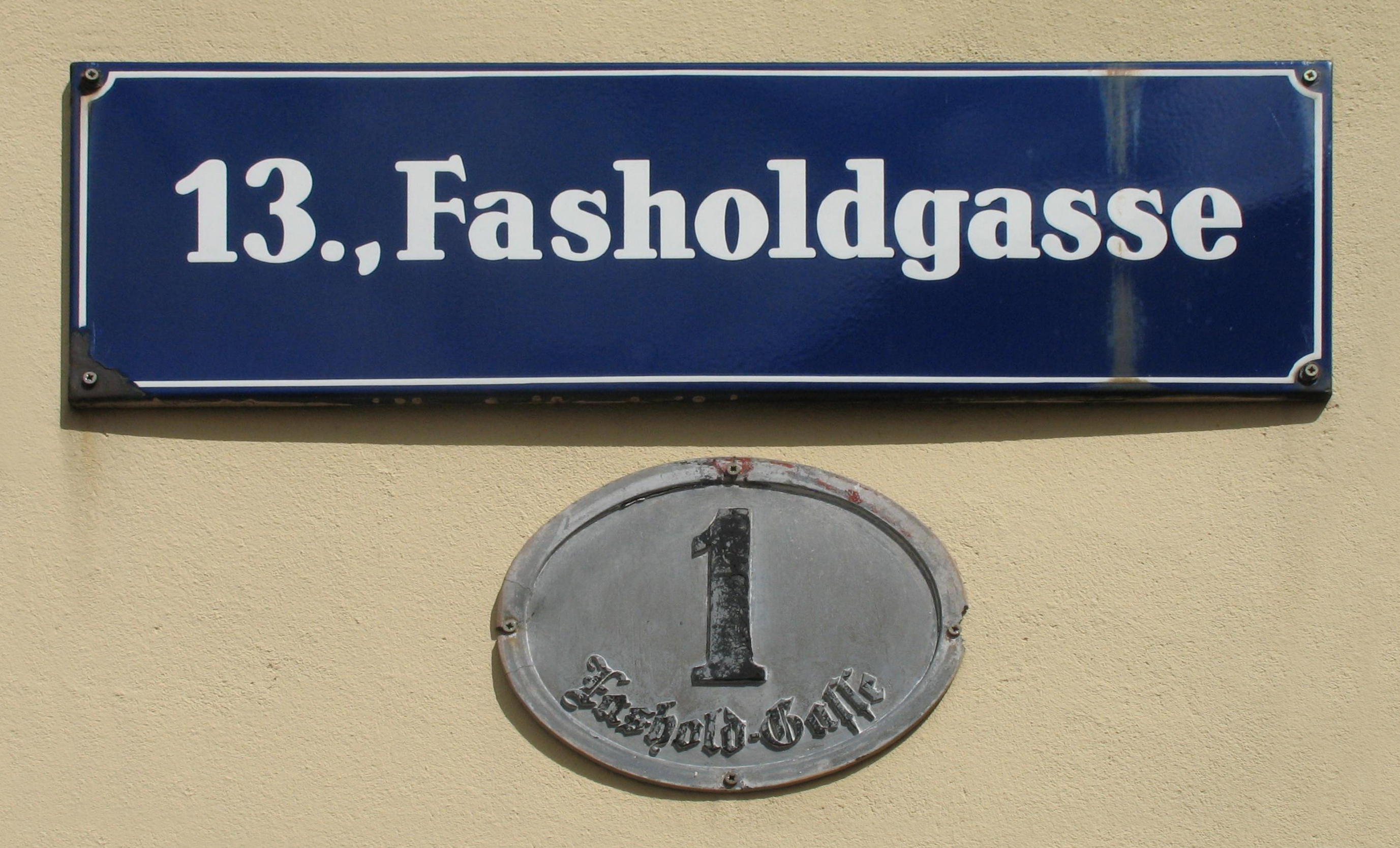 Street sign and house number in Vienna, Austria